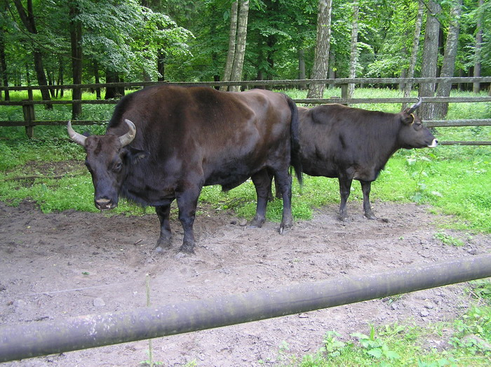 Zubron - male (left) and female (right) in Bialowieski National Park, Poland.